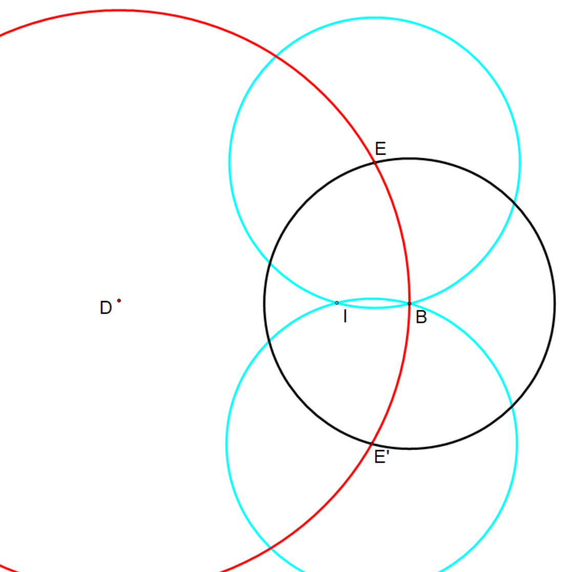 Image:Geometer's Sketchpad. Depicts the Mohr-Mascheroni (compass-only) construction of the inversion of a point across a circle.